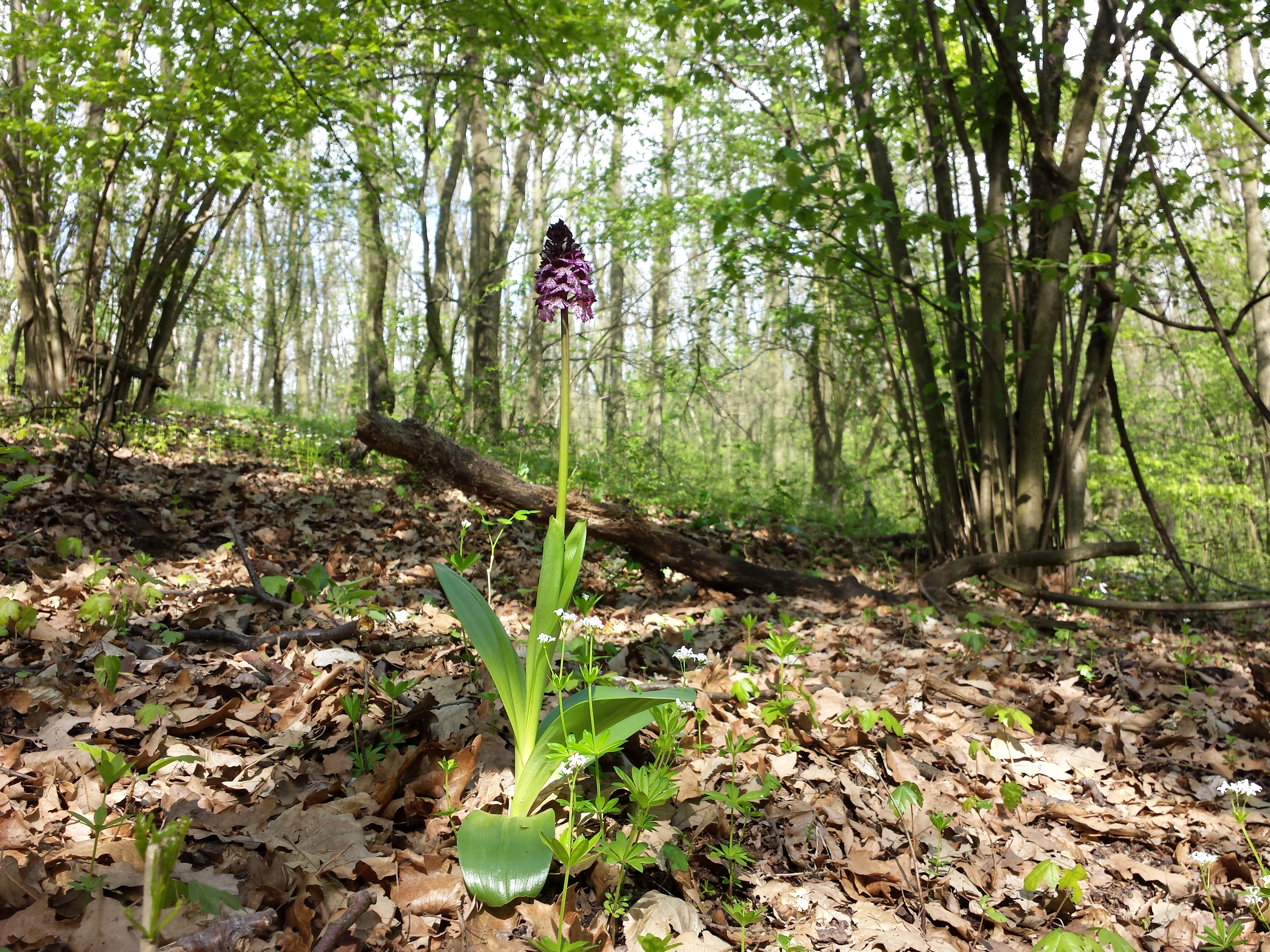 Habitat Taxon: Orchis purpurea (sensu Fischer et al. EfÖLS 2008 ISBN 978-3-85474-187-9) Location: Rohrwald, district Korneuburg, Lower Austria - ca. 300 m a.s.l. Habitat: xerotherme wood of Quercus cerris